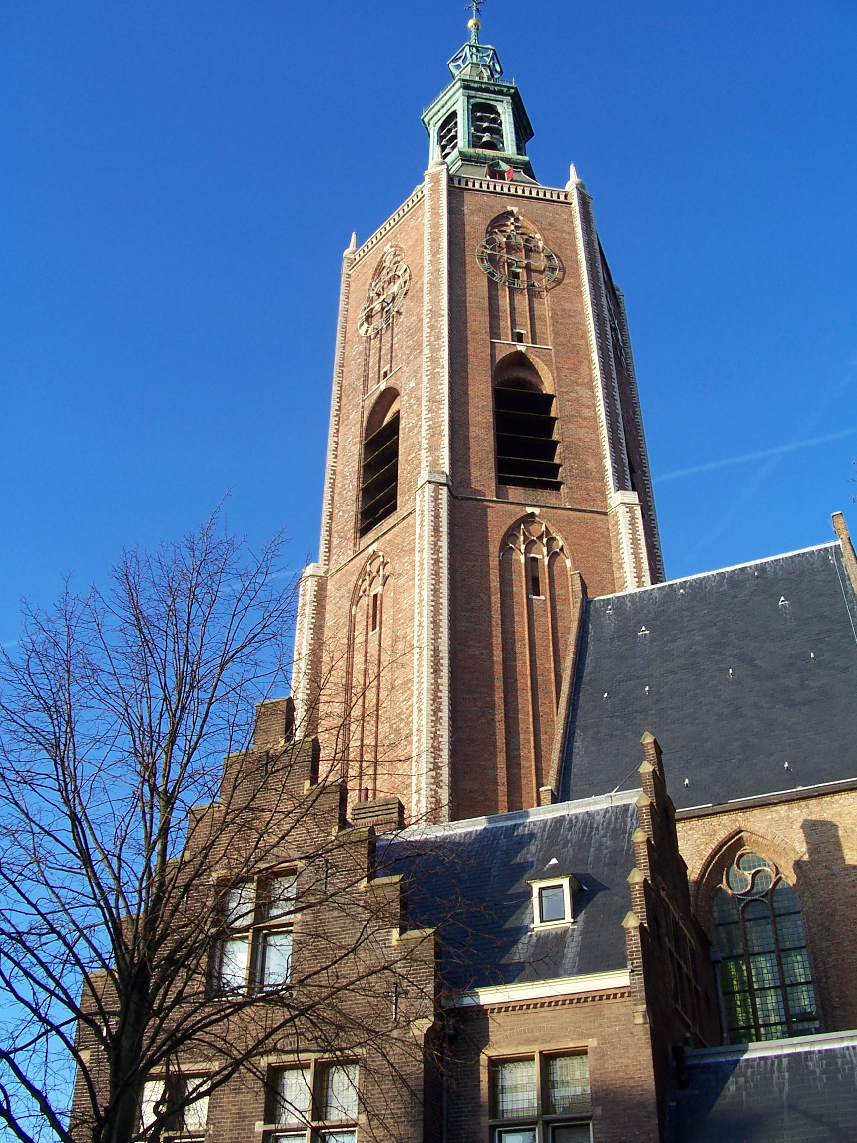 Grote of Sint-Jacobskerk, a church, located in the dutch city The Hague